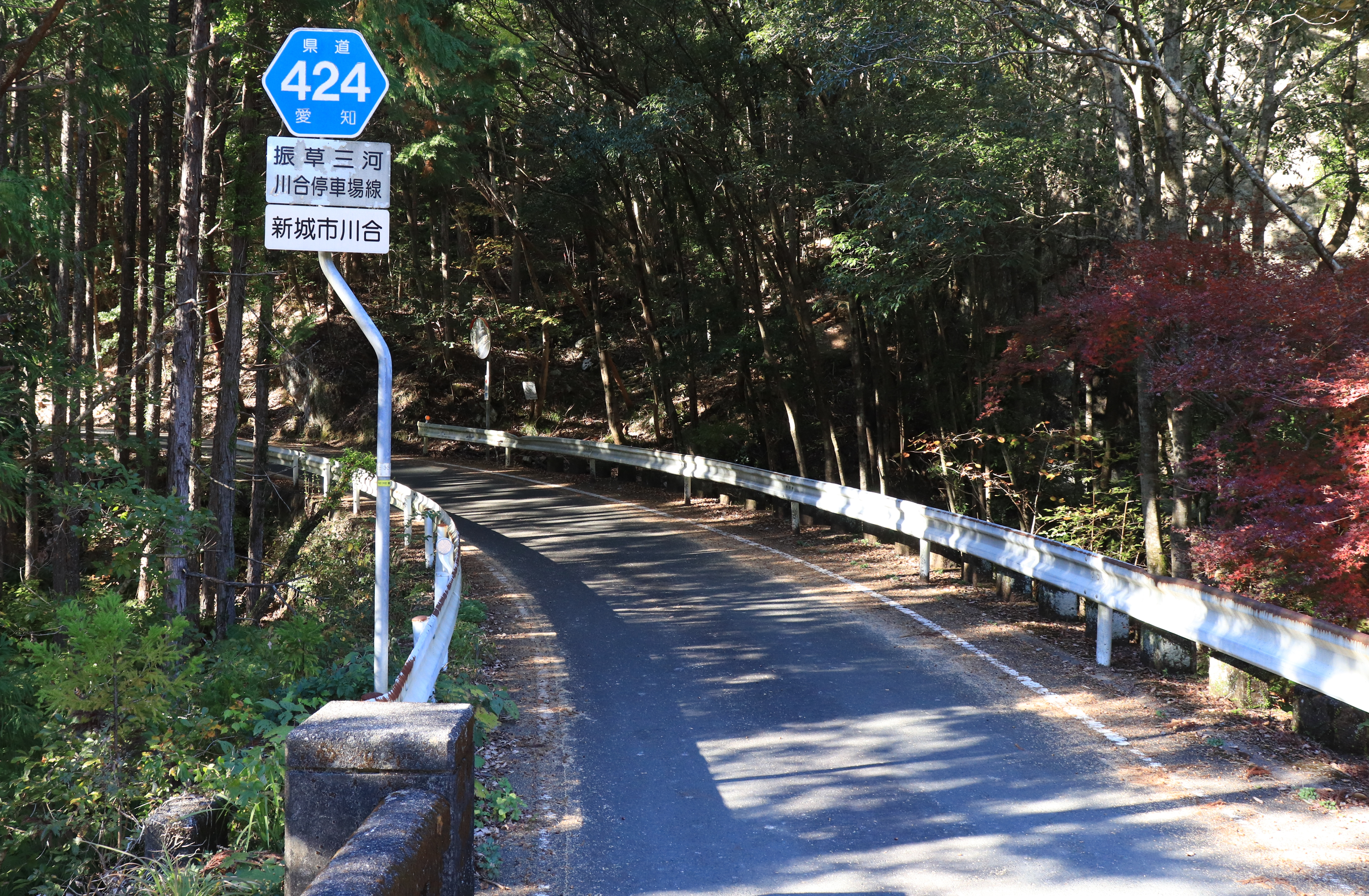 Aichi Prefectural Road Route 424 in Kawai, Shinshiro, Aichi Prefecture, Japan. Canon EOS Kiss X9